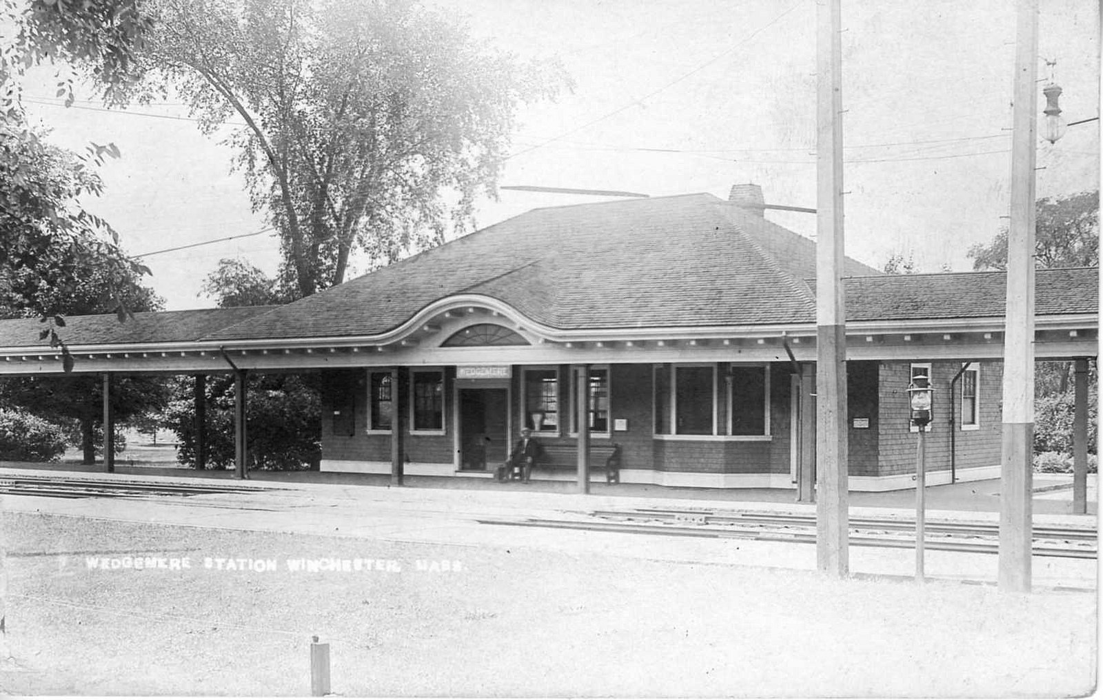 Wedgemere station around 1910. This building stood until replaced as part of a 1955-57 grade crossing elimination project.